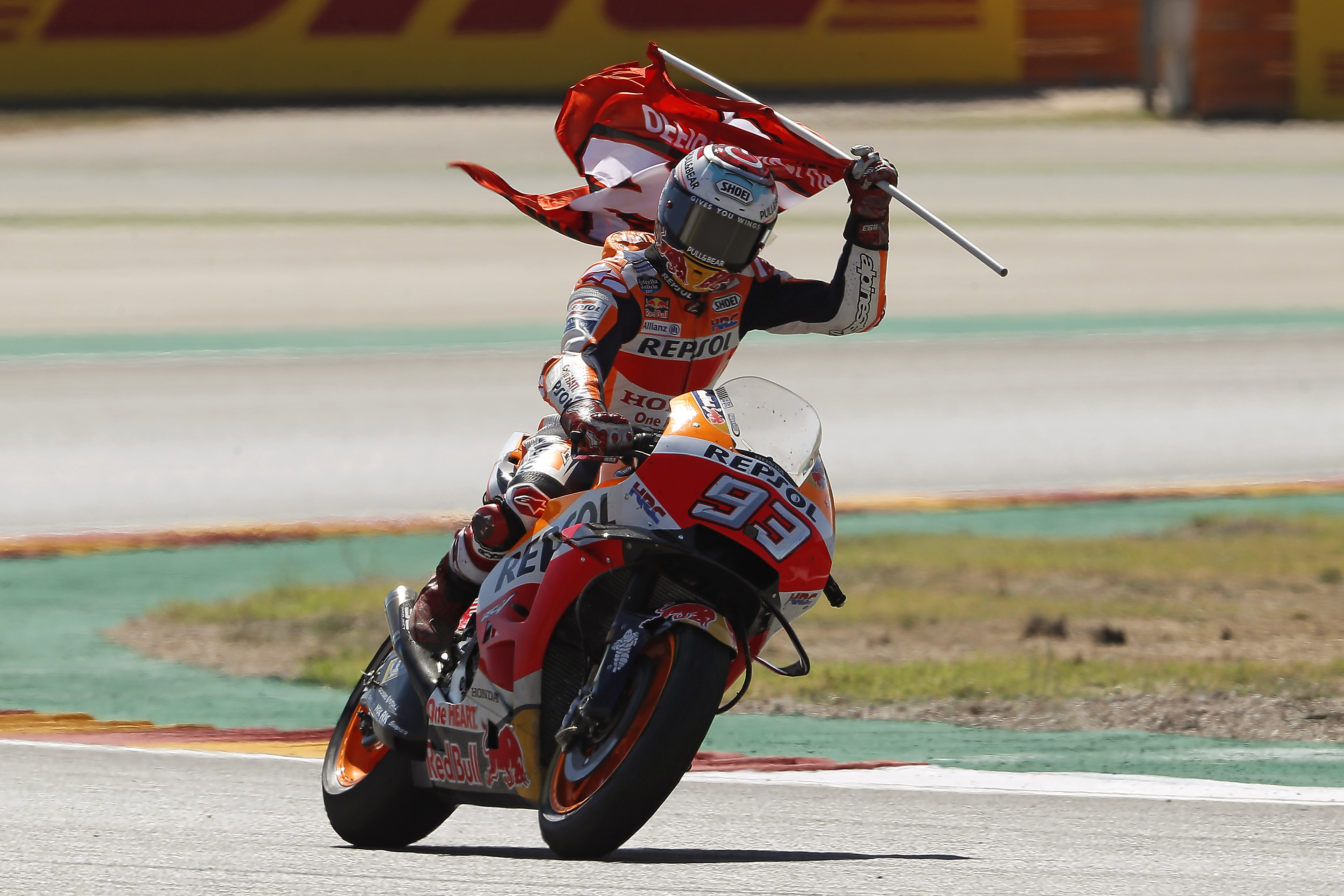 Marc Márquez, riding his Repsol Honda, celebrating with his flag after winning the 2018 Aragón Grand Prix.